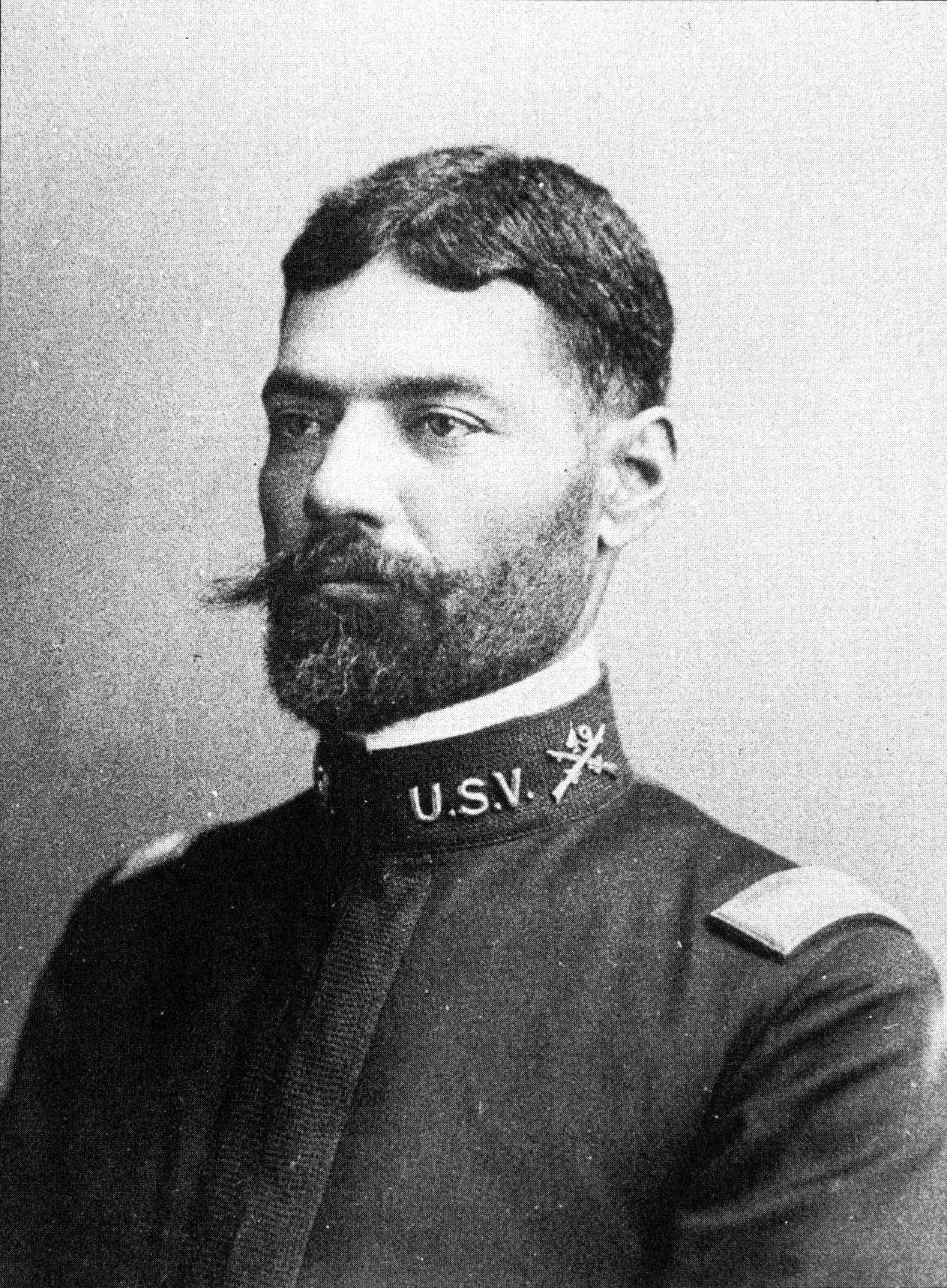 Edward L. Baker, Jr., United States Army. Recipient of the Medal of Honor for his actions in the Spanish-American War.